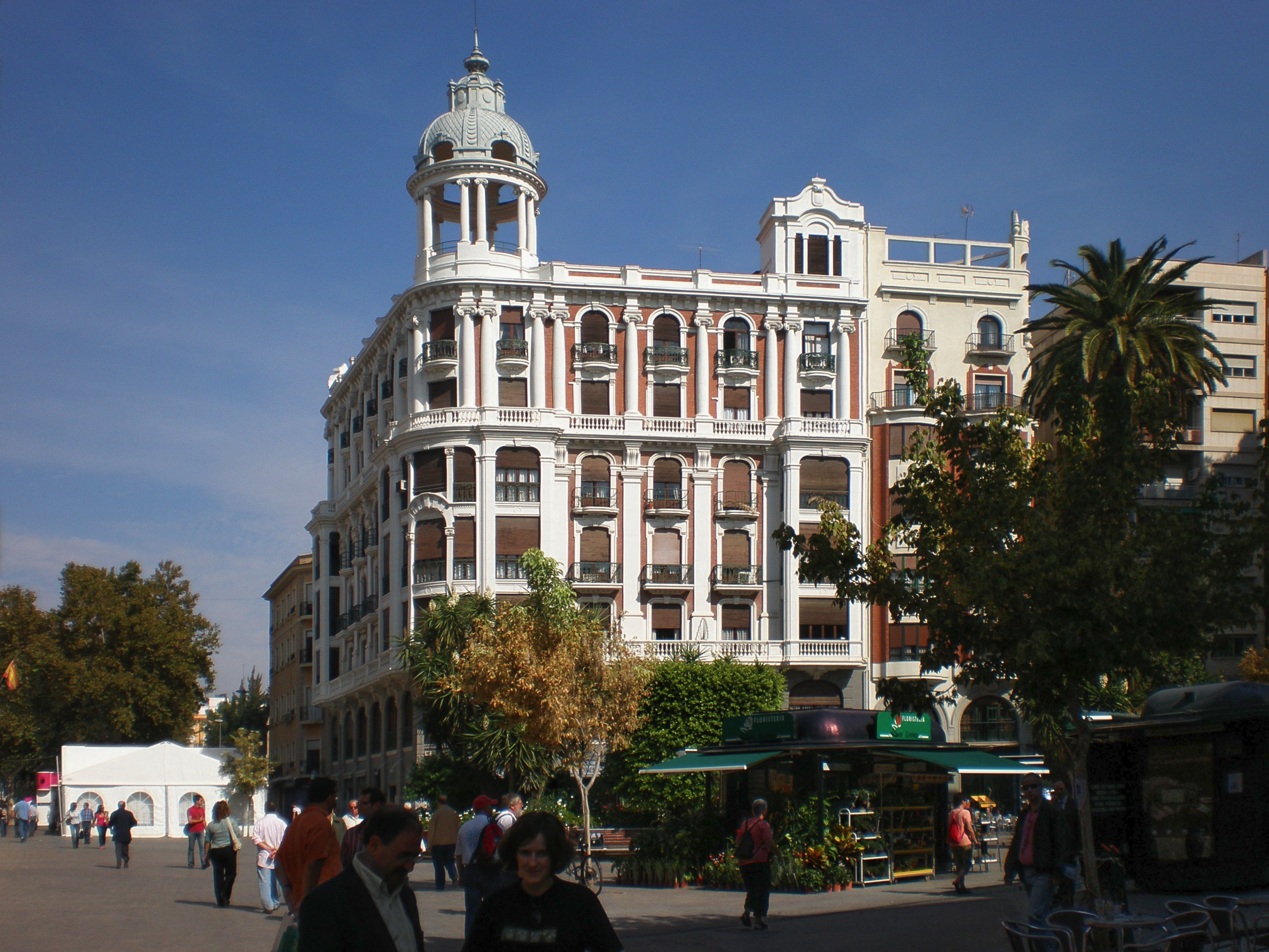 Casa Cerdá building in Santo Domingo square, Murcia (Spain)